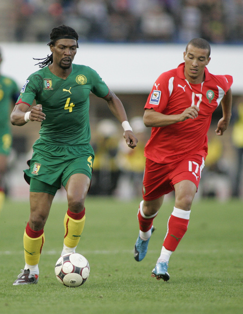 Cameroonian football player Rigobert Song and Moroccan Nabil Baha during match of their national sides